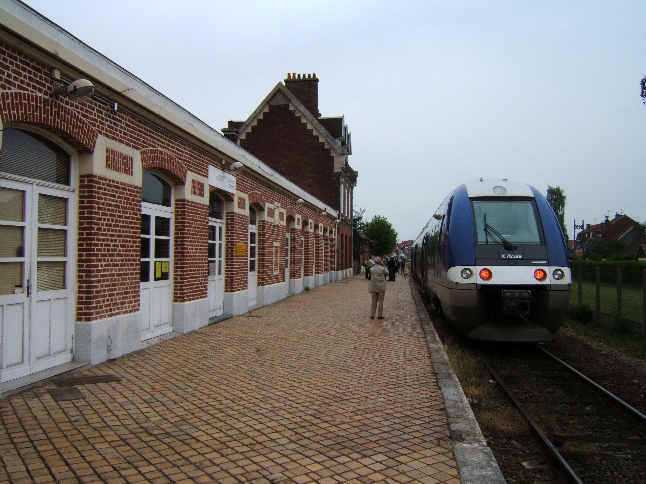 Comines train station with TER train. The X 76590.